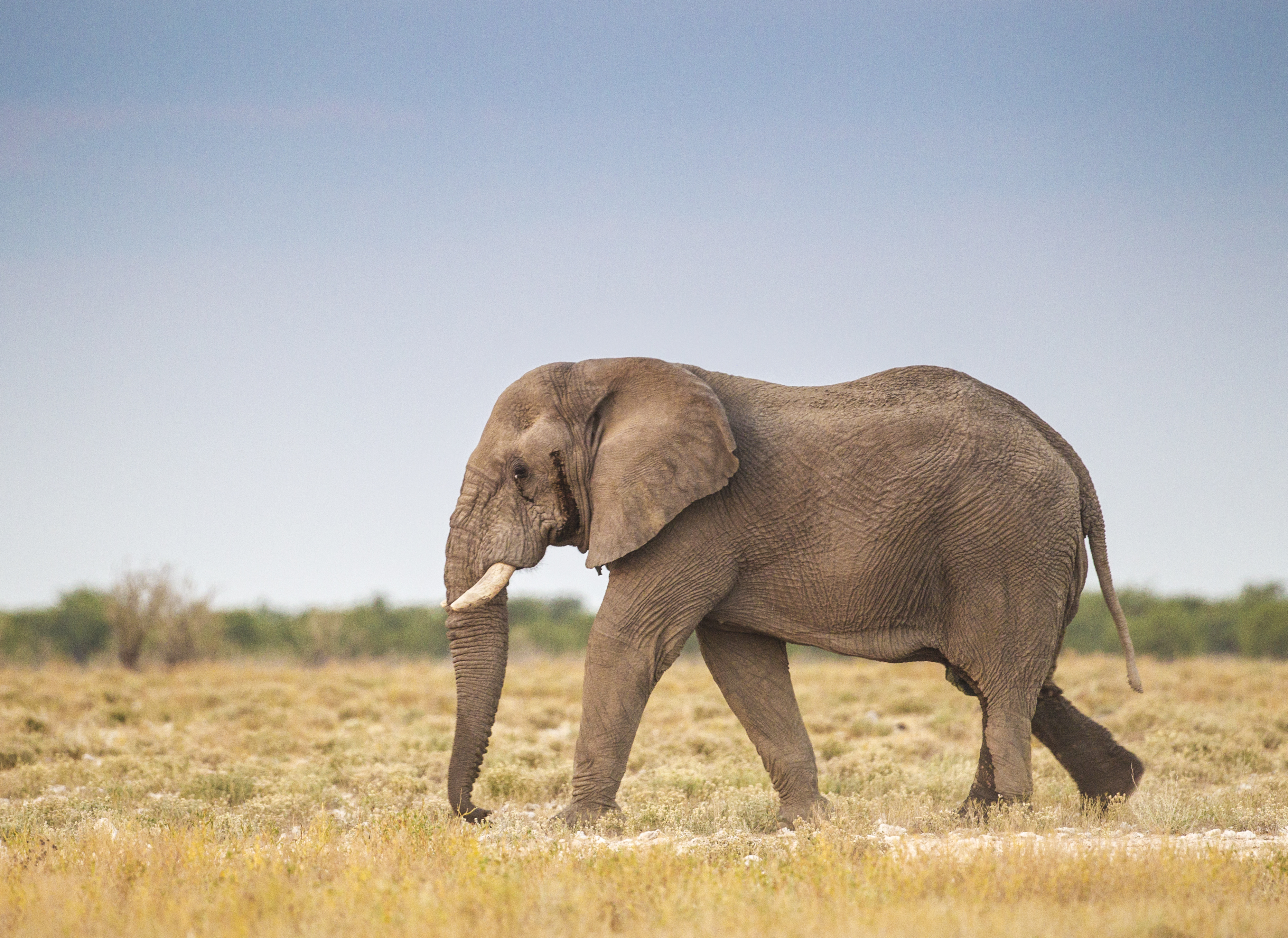 African savanna elephant in Etosha National Park, Namibia